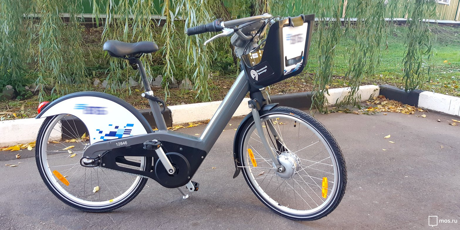 Velobike electric bike